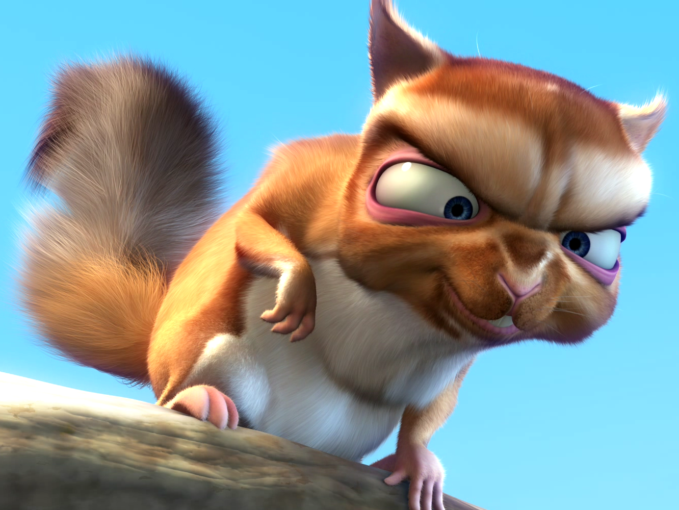 Screenshot of the Big Buck Bunny movie